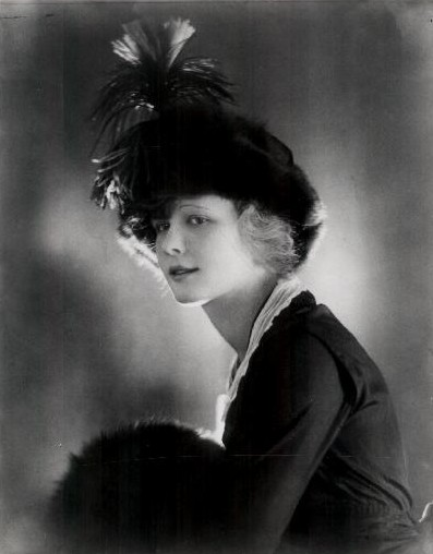 Marilyn Miller, by Adolf de Meyer.